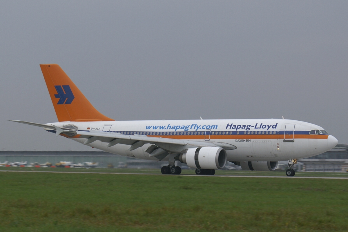 Hapag-Lloyd/Hapagfly Airbus A310-304 D-AHLA landing at Stuttgart Airport. Note deployed thrust reversers on the engines.